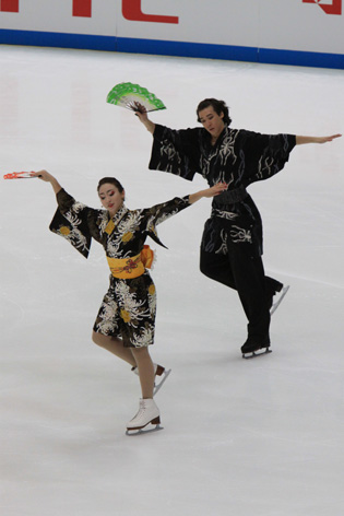 Cathy Reed and Chris Reed at the 2009 NHK Trophy. OD.